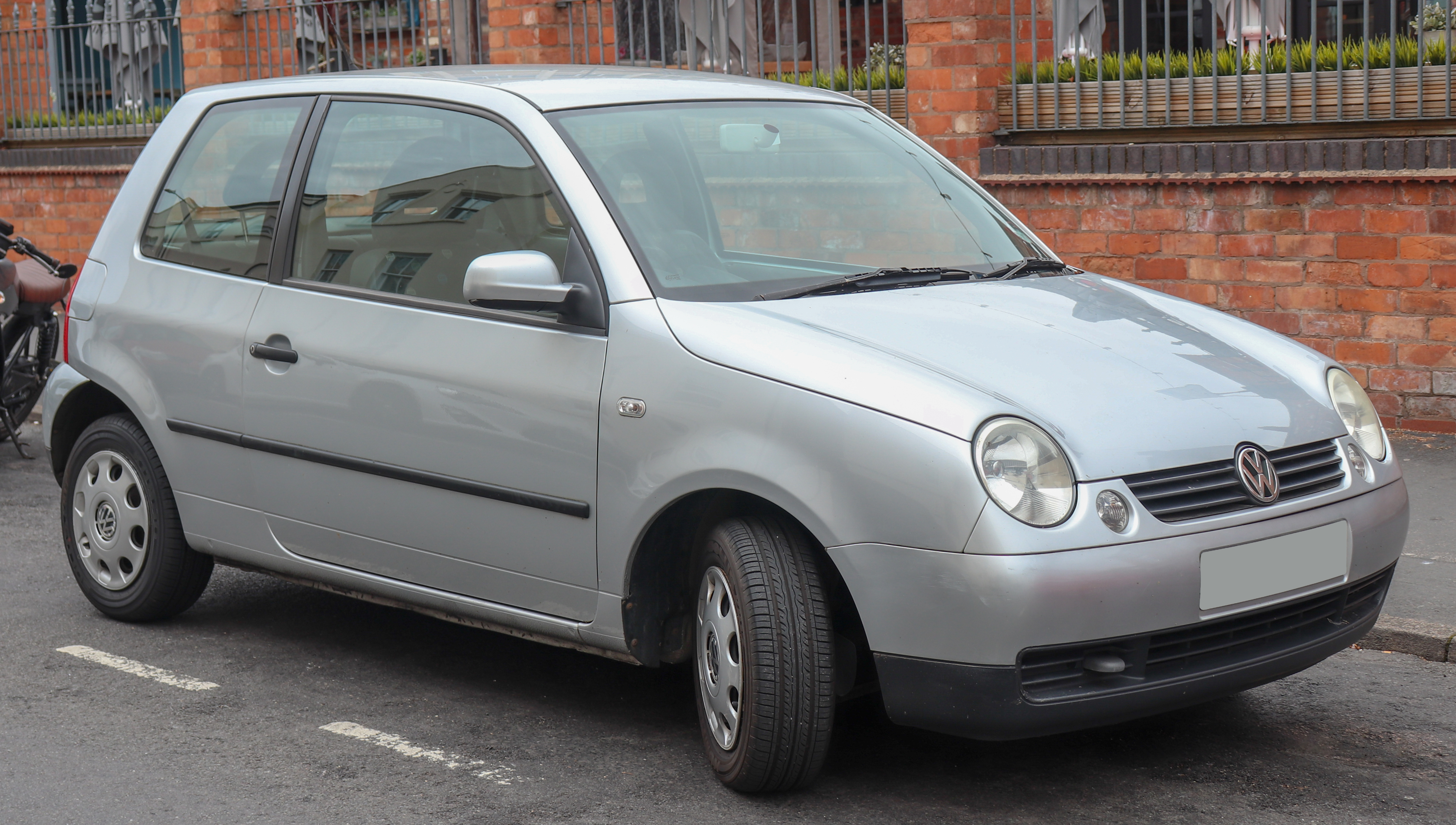 2002 Volkswagen Lupo E 1.0 Front Taken in Leamington Spa